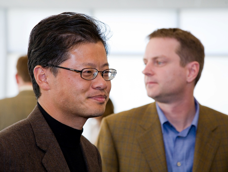 Jerry Yang and David Filo, the founders of Yahoo! Bân-lâm-gú: Tshòng-pān Yahoo ê Iûnn Tì-uán kah David Filo. 創辦雅虎(Yahoo)的楊致遠佮大衛‧費羅(David Filo)。